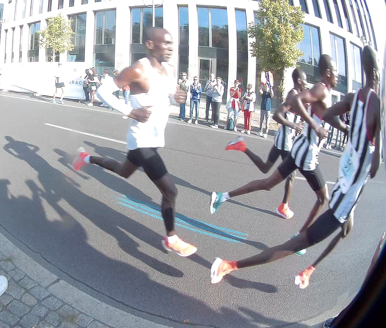 Eliud Kipchoge at Berlin Marathon 2018 passing Central Railway Station around 90 minutes before finishing with a new World Record.